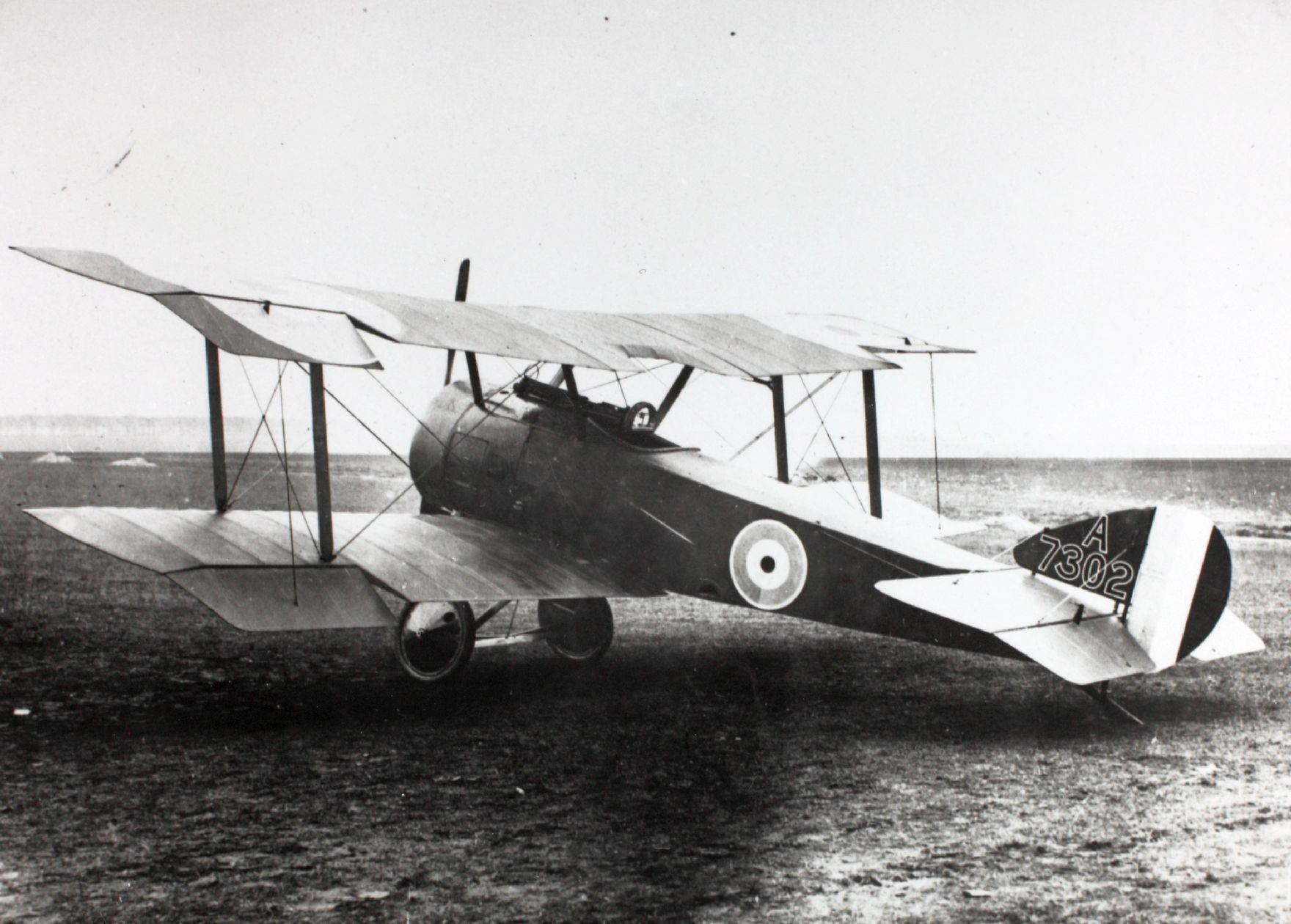 Sopwith Pup A7302